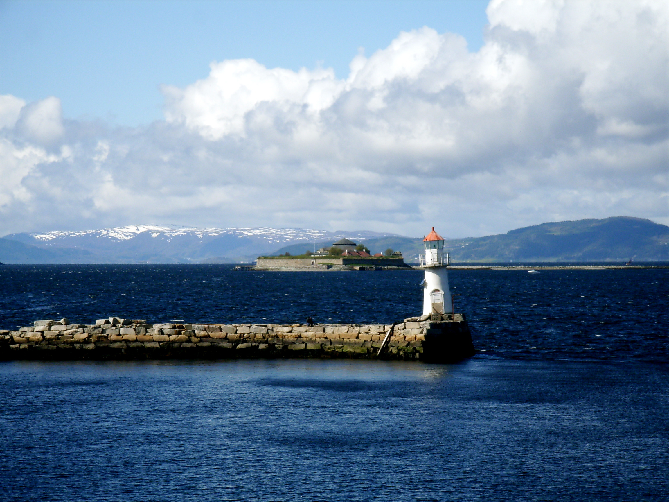 Lighthouse and the island Munkholmen in Trondheimsfjord.